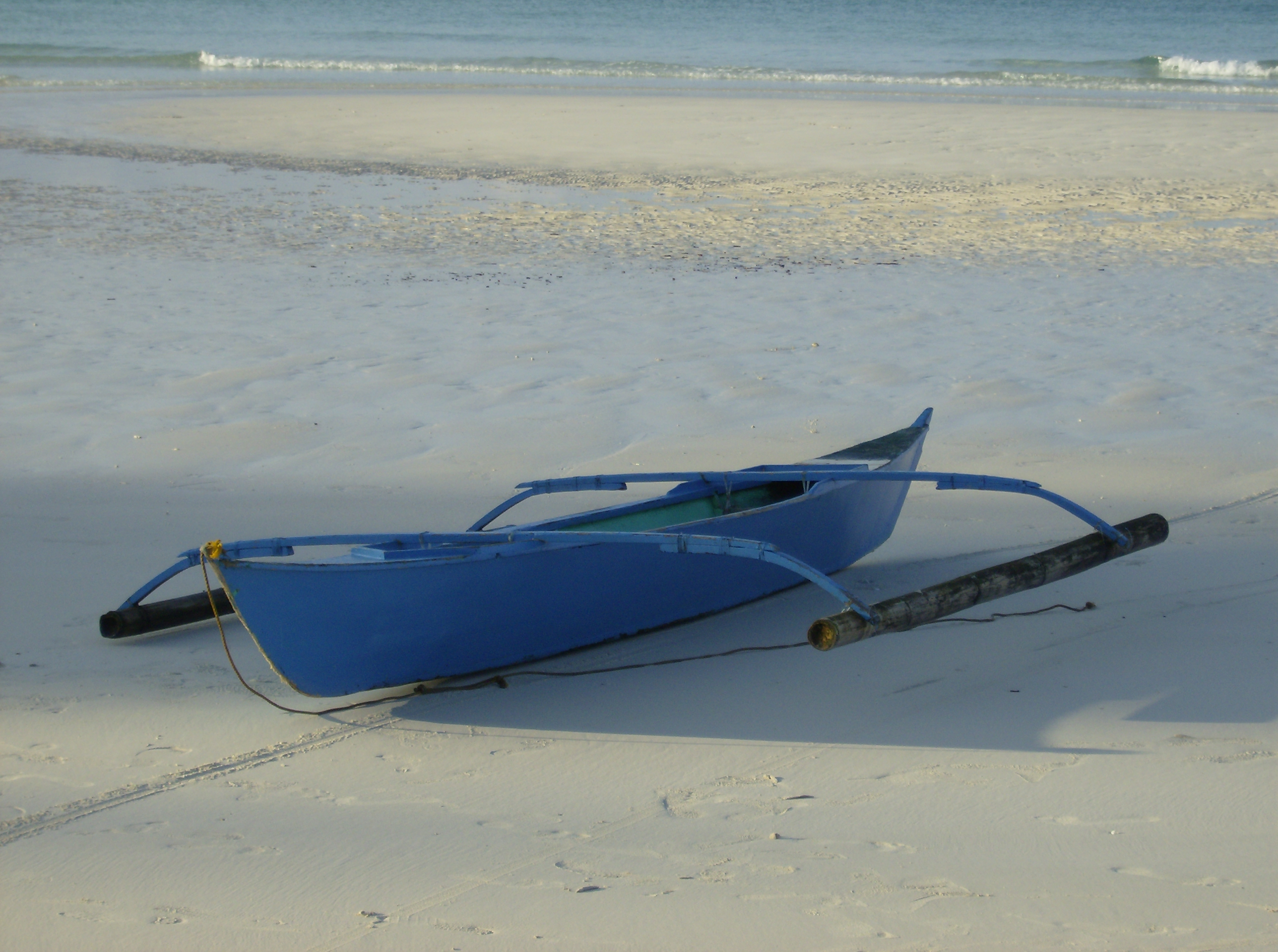 Small paddling bangka typically carried by larger motherships to assist in embarking and disembarking and casting nets.